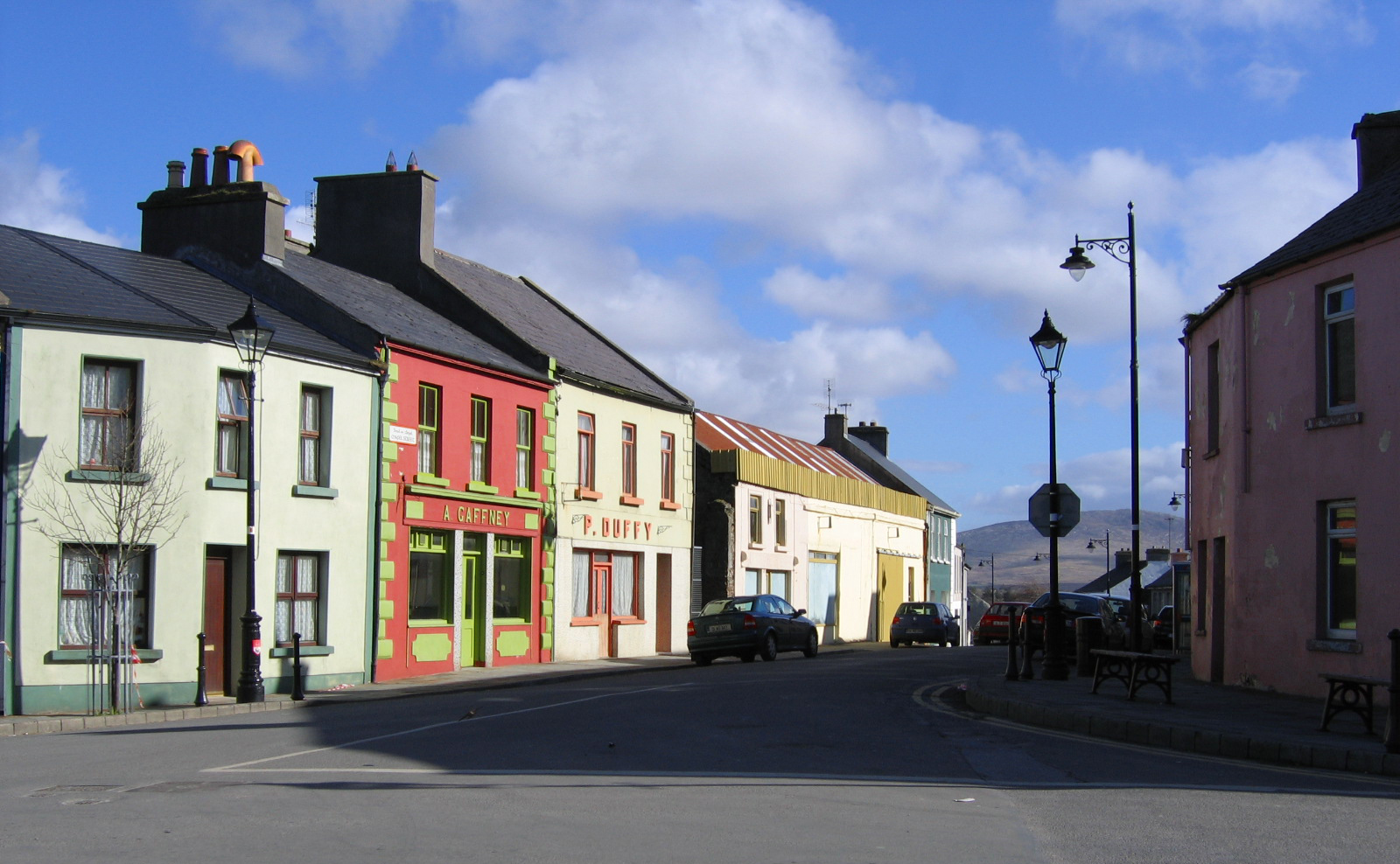 Louisburgh, County Mayo, Republic of Ireland.